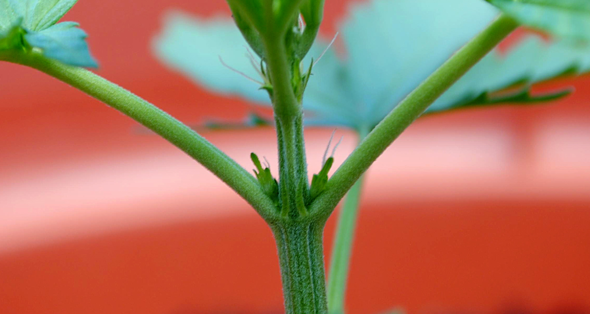 An example of axillary buds located in the axil of the leaf.